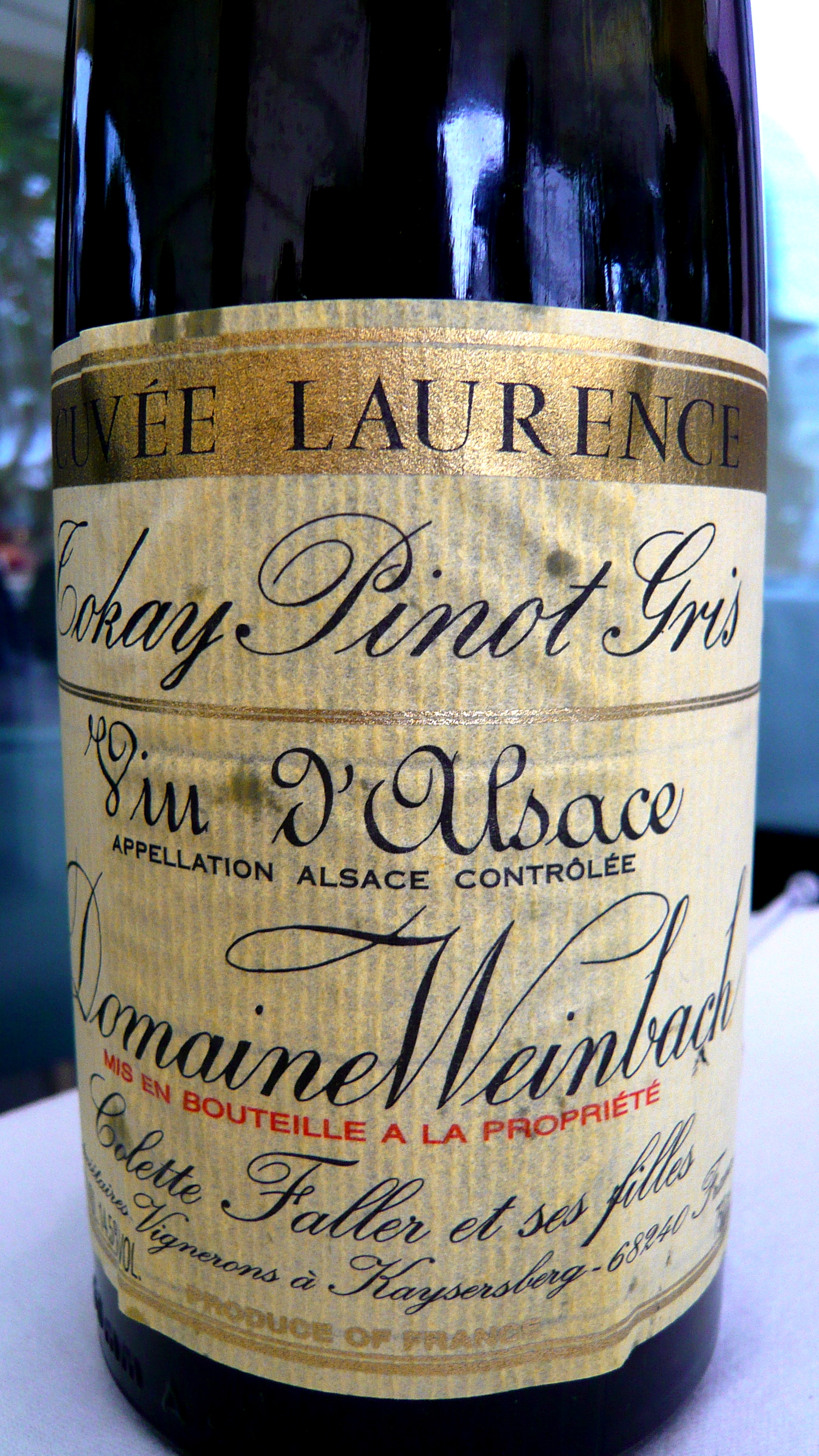 A brilliant Tokay Pinot Gris Cuvee Laurence 2000 Domaine Weinbach. Thank you, Roger!